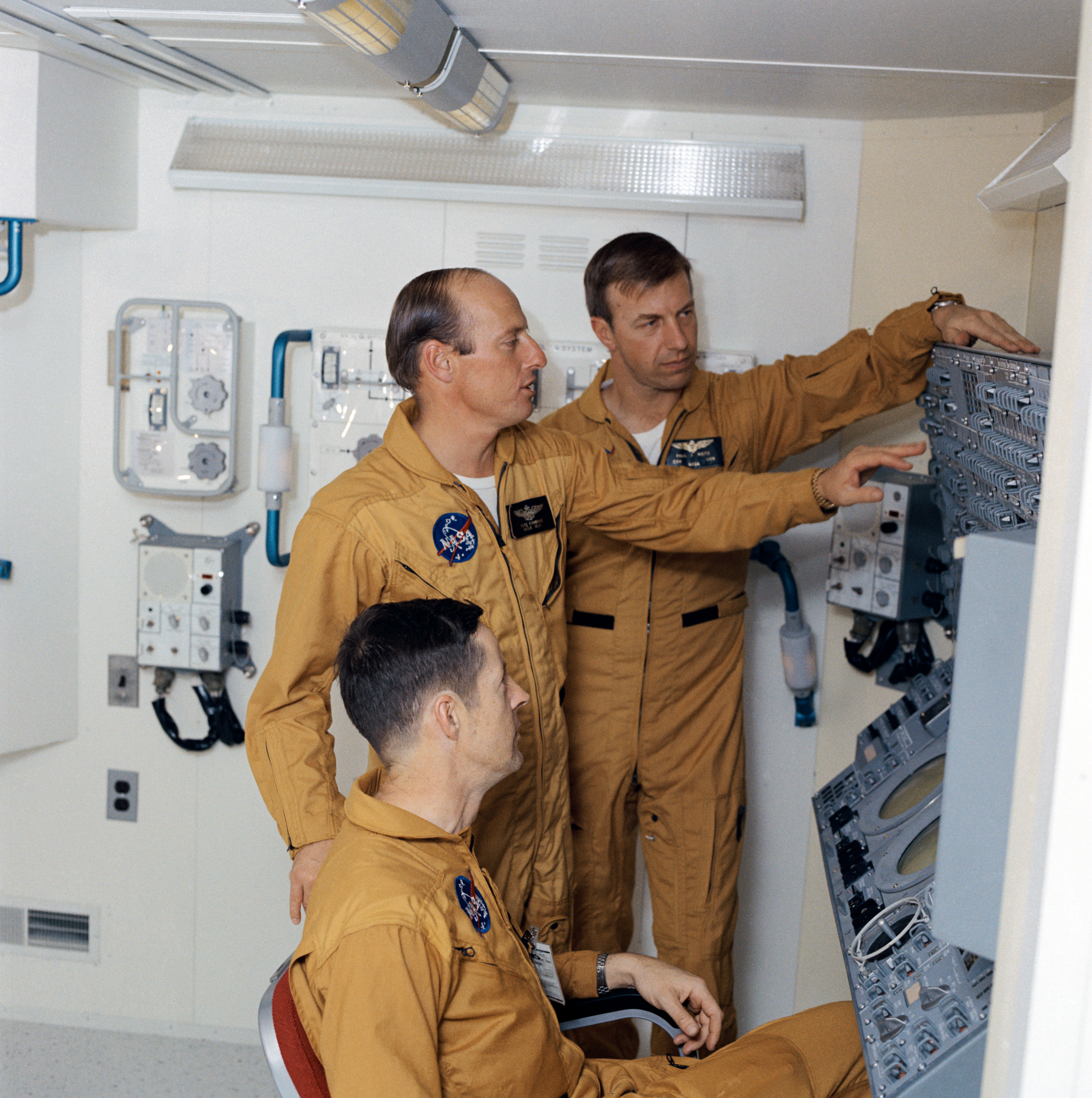 These three men are the crewmen for the first manned Skylab mission. They are astronaut Charles Conrad Jr., commander, standing left; scientist-astronaut Joseph P. Kerwin, seated; and Astronaut Paul J. Weitz, pilot. They were photographed and interviewed during an "open house" press day in the realistic atmosphere of the Multiple Docking Adapter (MDA) trainer in the Mission Simulation and Training Facility at the Manned Spacecraft Center (MSC). The control and display panel for the Apollo Telescope Mount (ATM) is at right.